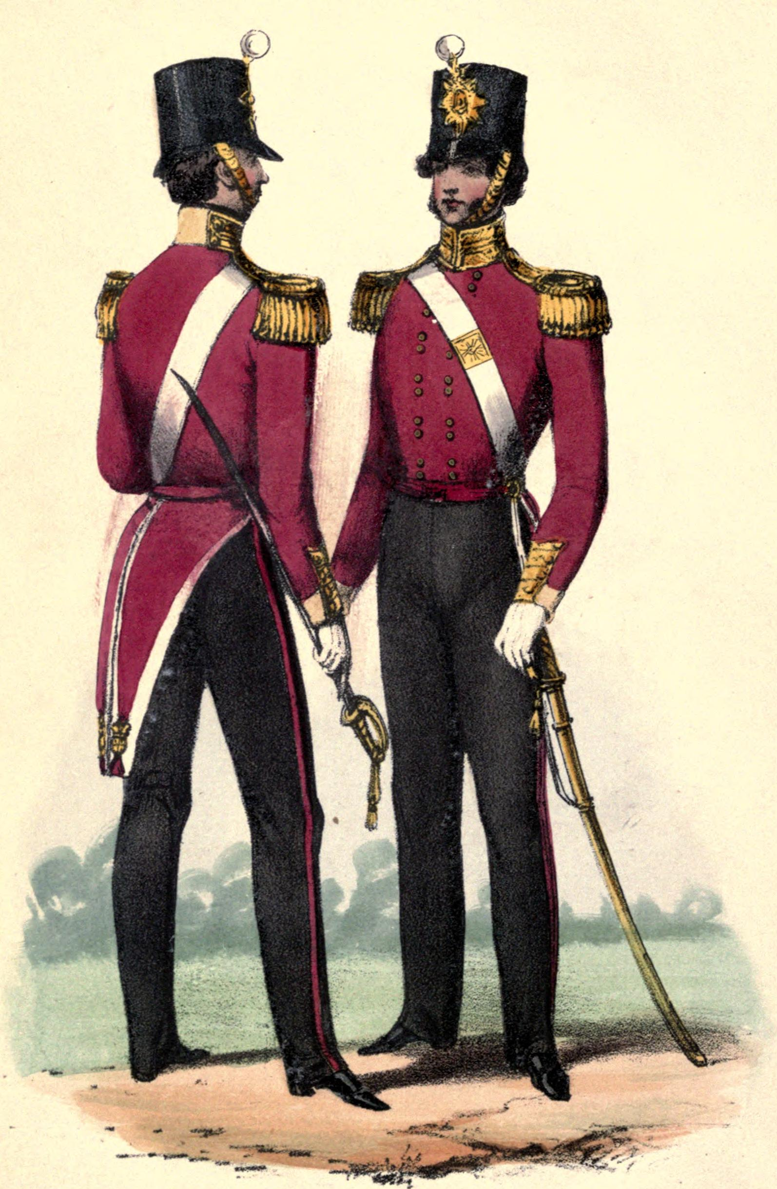 Uniform of the 67th Foot.